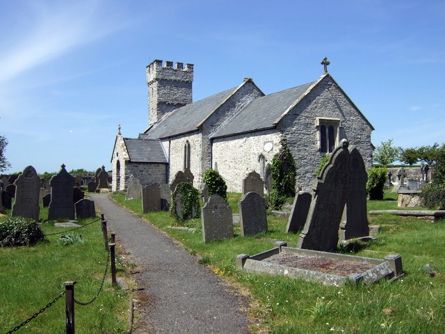 St Mary's church, Pennard The history of this church is something of a puzzle: it succeeded as parish church another, now-ruined, St Mary's, on Pennard Burrows, which was inundated by sand and abandoned in the C16. However it would appear from several mediaeval features here that this church is as old, if not older, than the ruined church which lay a mile away, by Pennard castle and the settlement that once existed there. This church stands on the road between Southgate and Kittle near the settlement called Highway and just south of Kilvrough Manor.